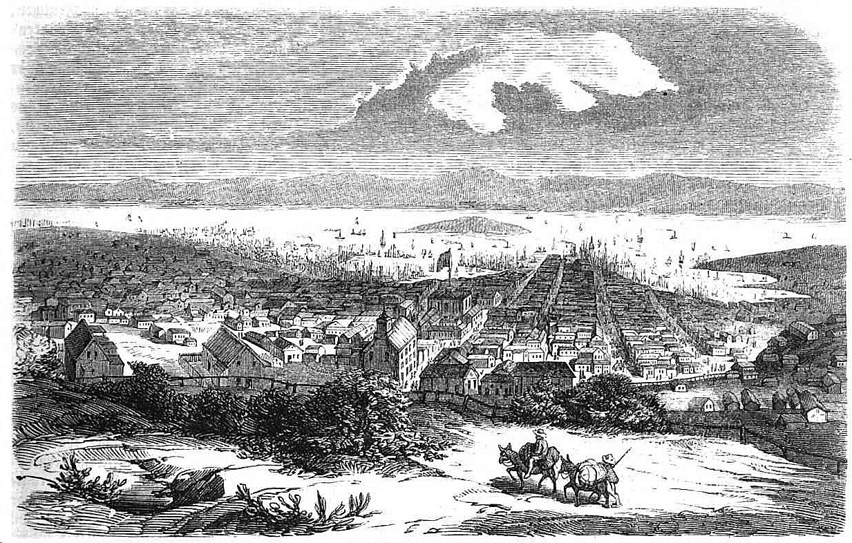 caption: "San Francisco im Jahre 1852."